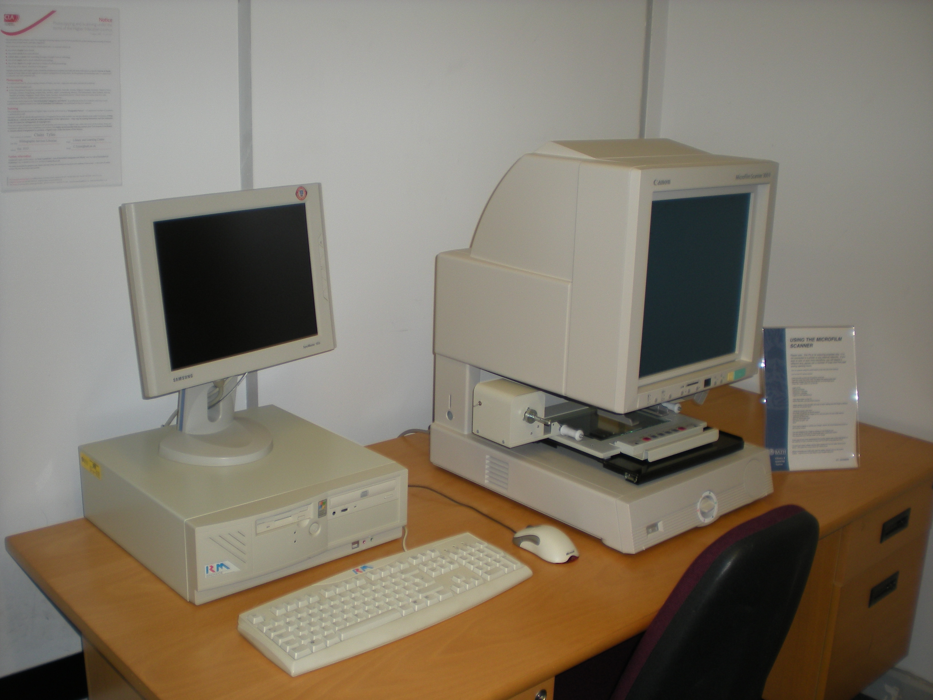 Microfilm reader